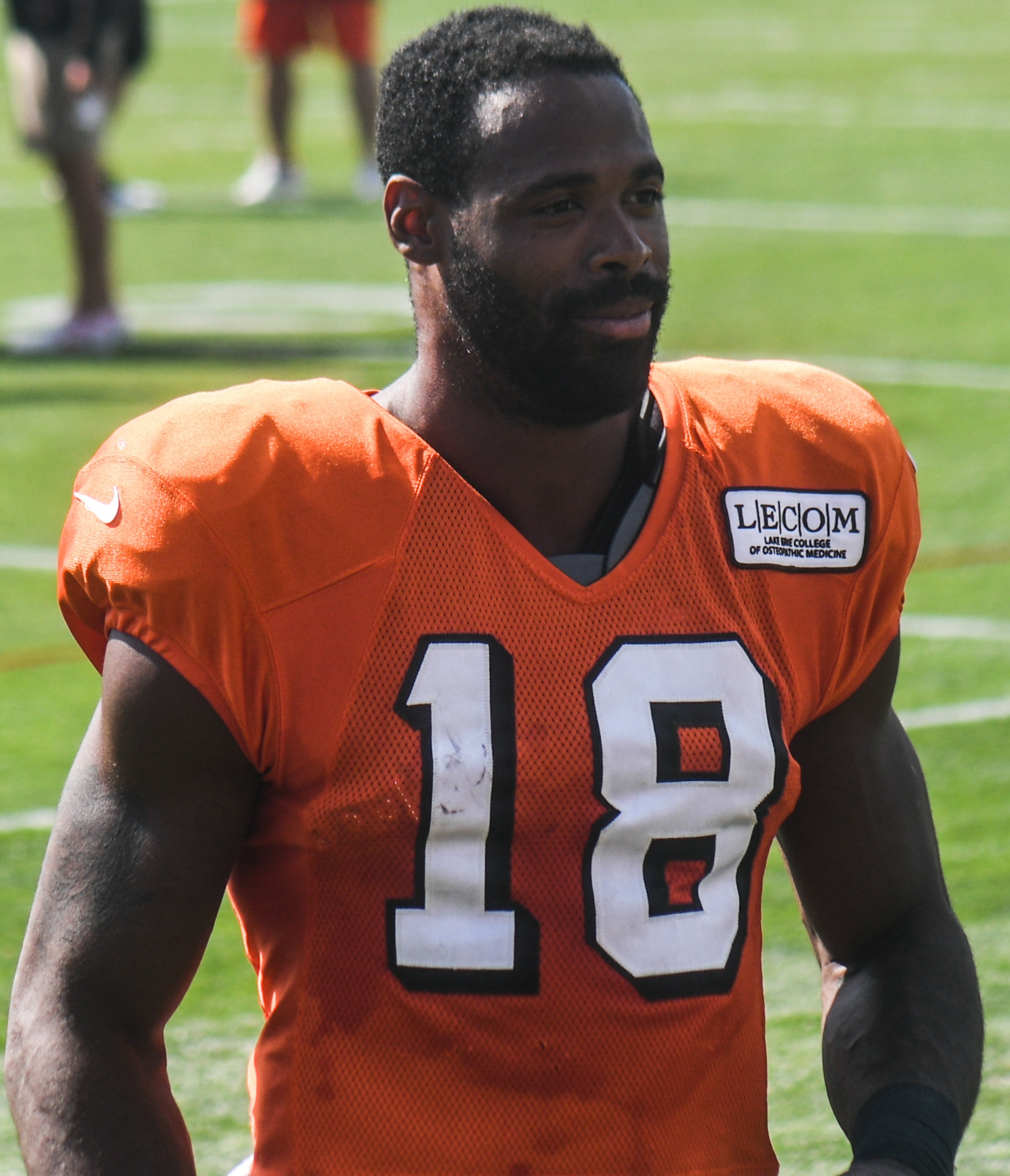 Britt in the Cleveland Browns 2017 training camp